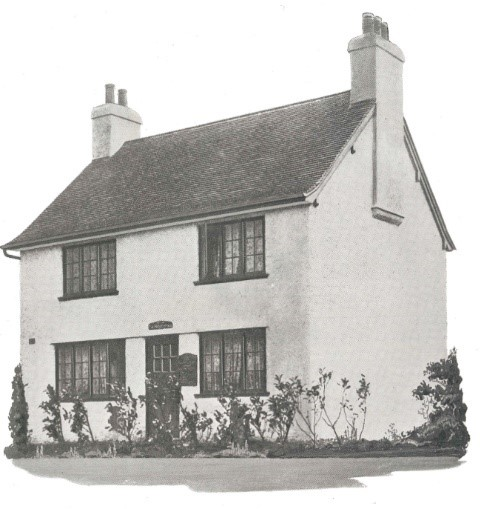 This was the Prize Cottage, which the Co-Operative Permanent owned and turned it into the office for the local agent